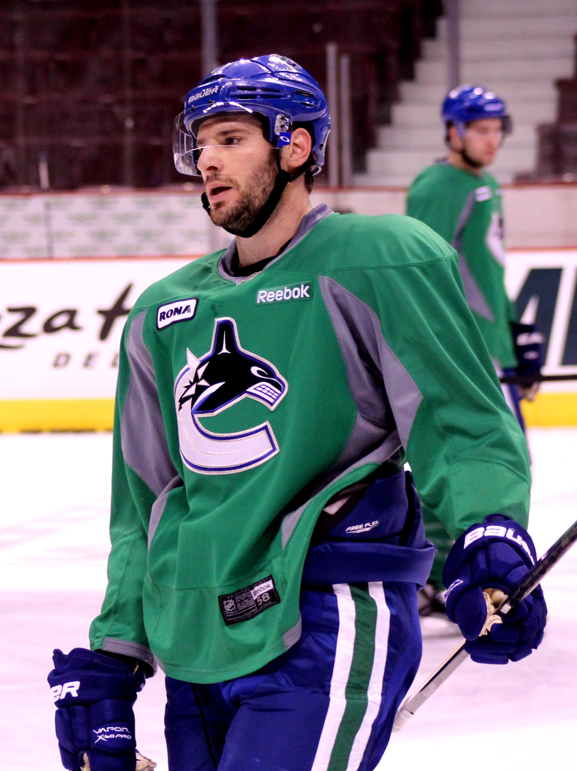 Vancouver Canucks forward Ryan Kesler during a practice on March 9, 2012.